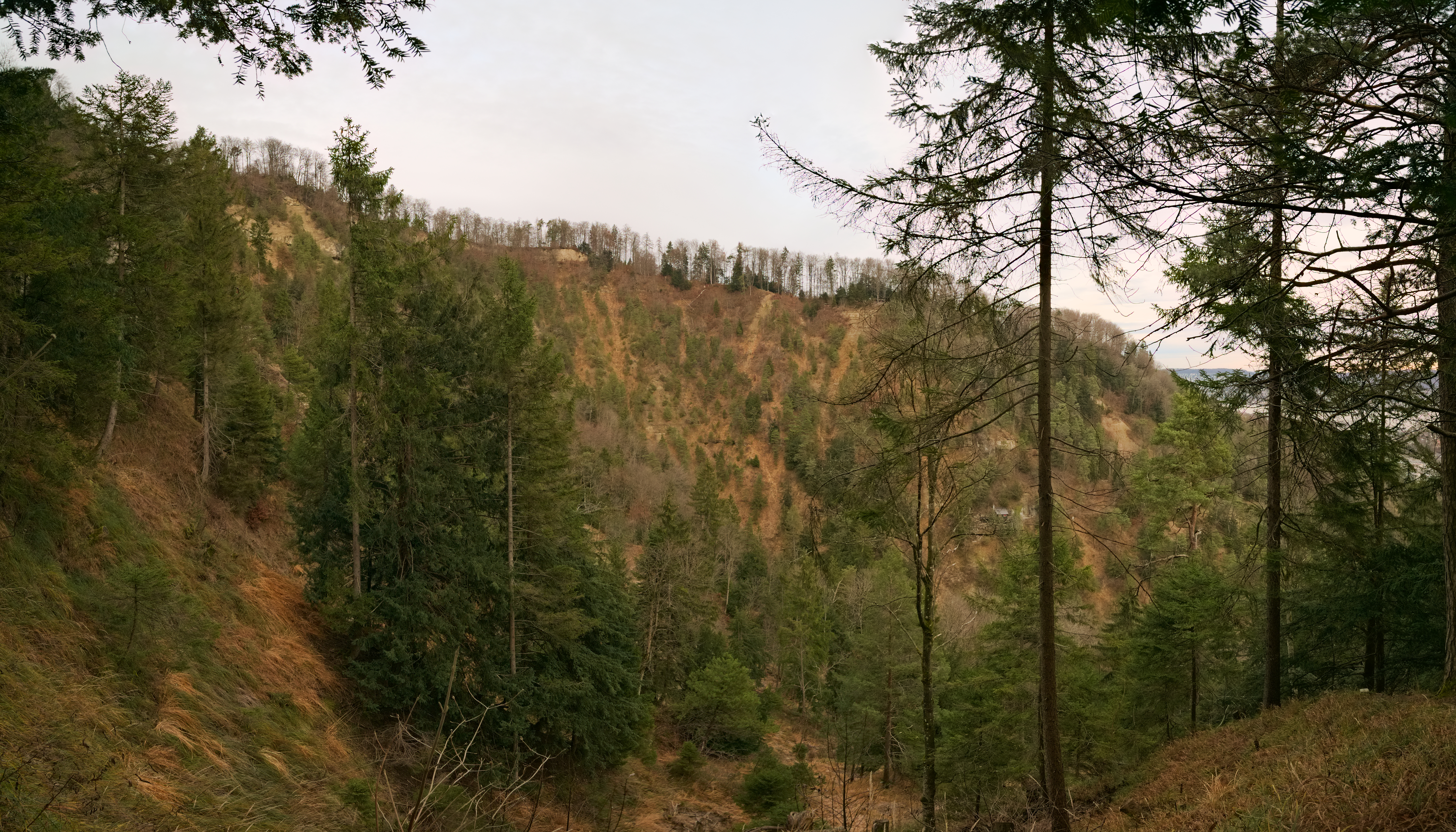 View of the northern side of the Fallätsche erosion and nature area near Zurich. On this side (and visible on the picture) are multiple small huts built by alpine clubs in the early 1900s, like the Felsenkammer, Bristenstäfeli and the Teehüsli (where tea is served to the public on Sundays).